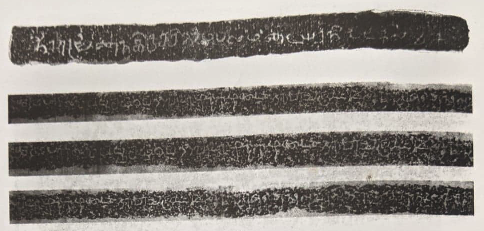 Four pillar inscriptions from Polonnaruva, 11th century AD